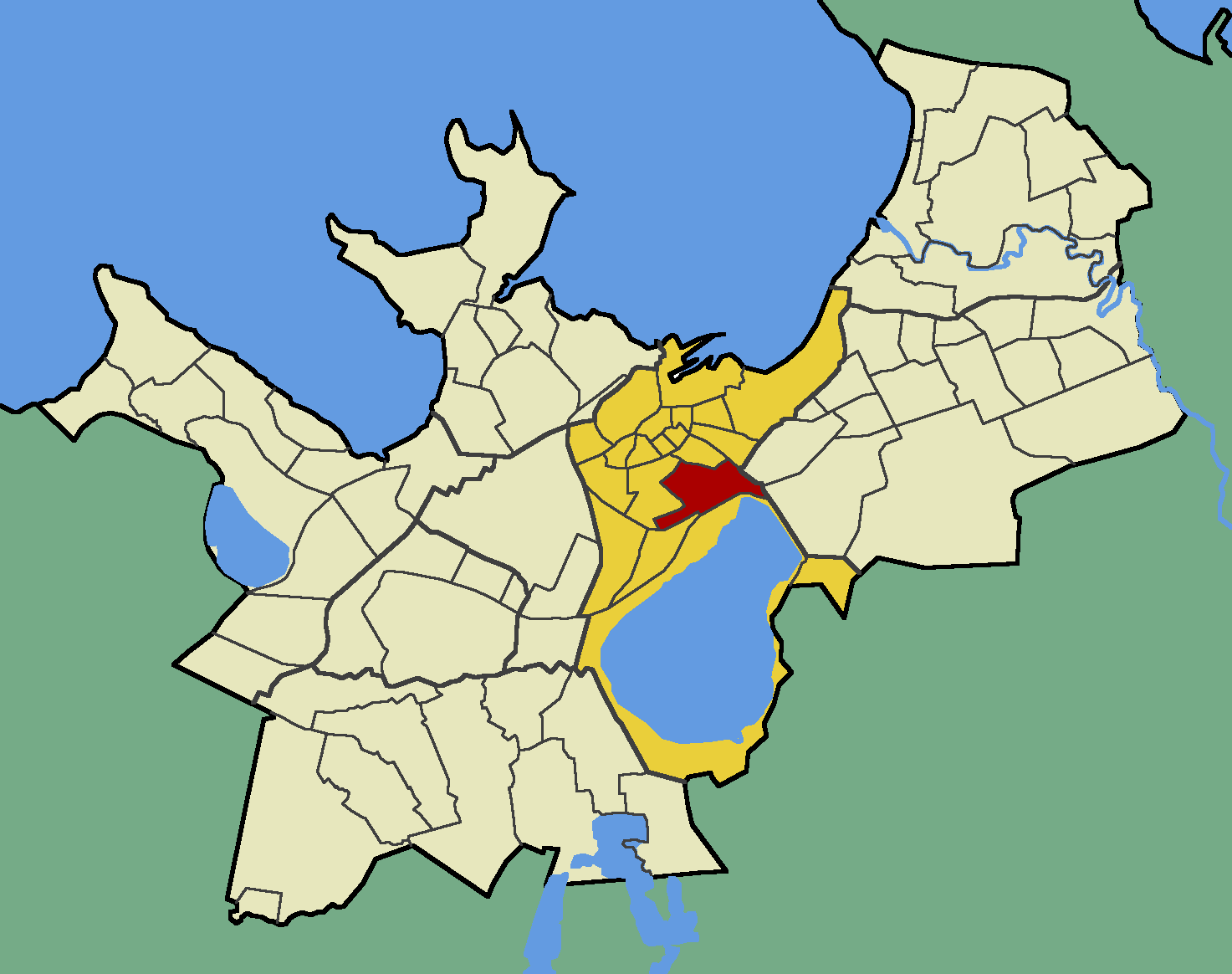 Map of Tallinn (Estonia) with borders of the quarters, Kesklinn district and Juhkentali quarter emphasised